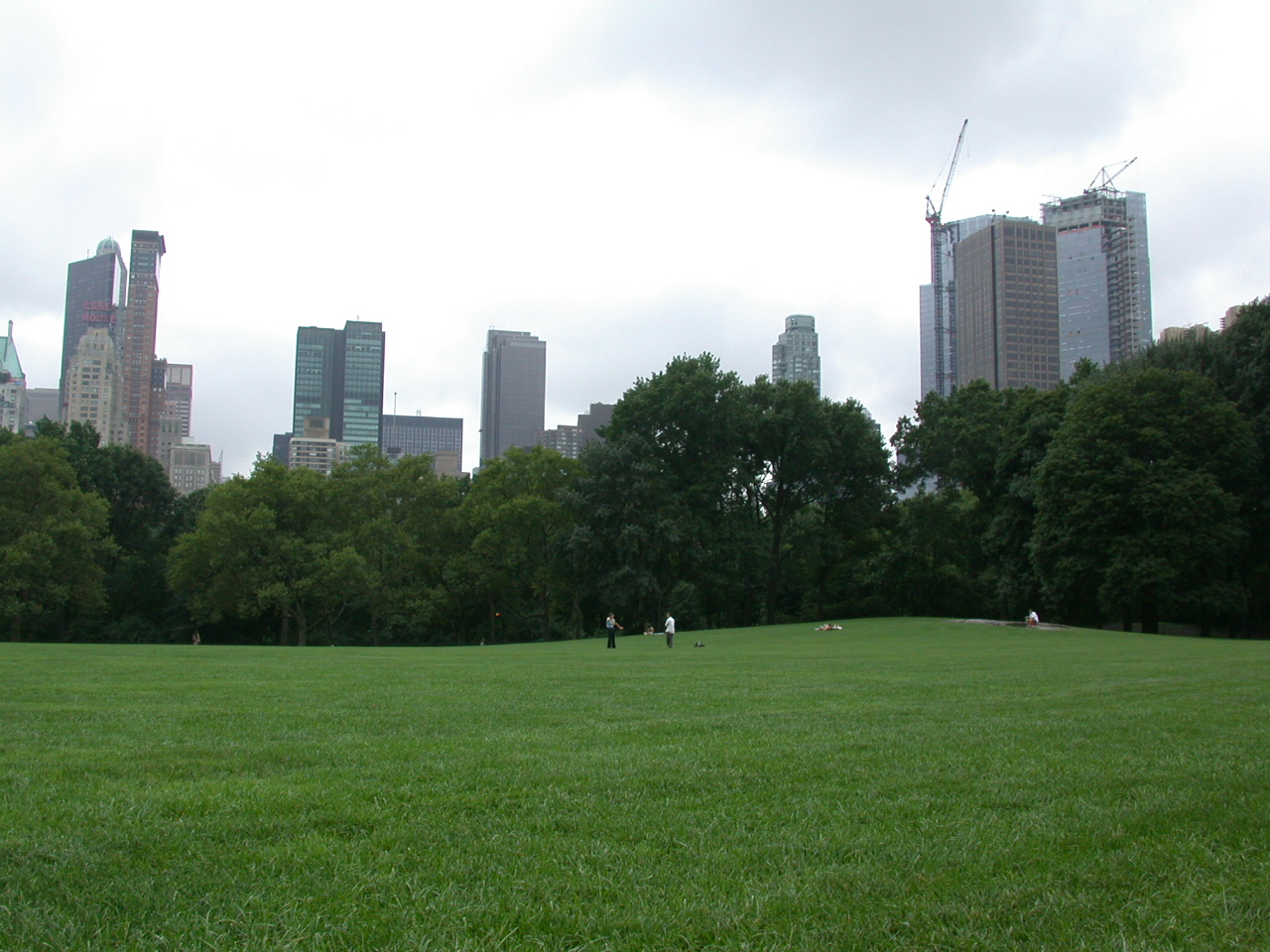 Central Park (New York City)